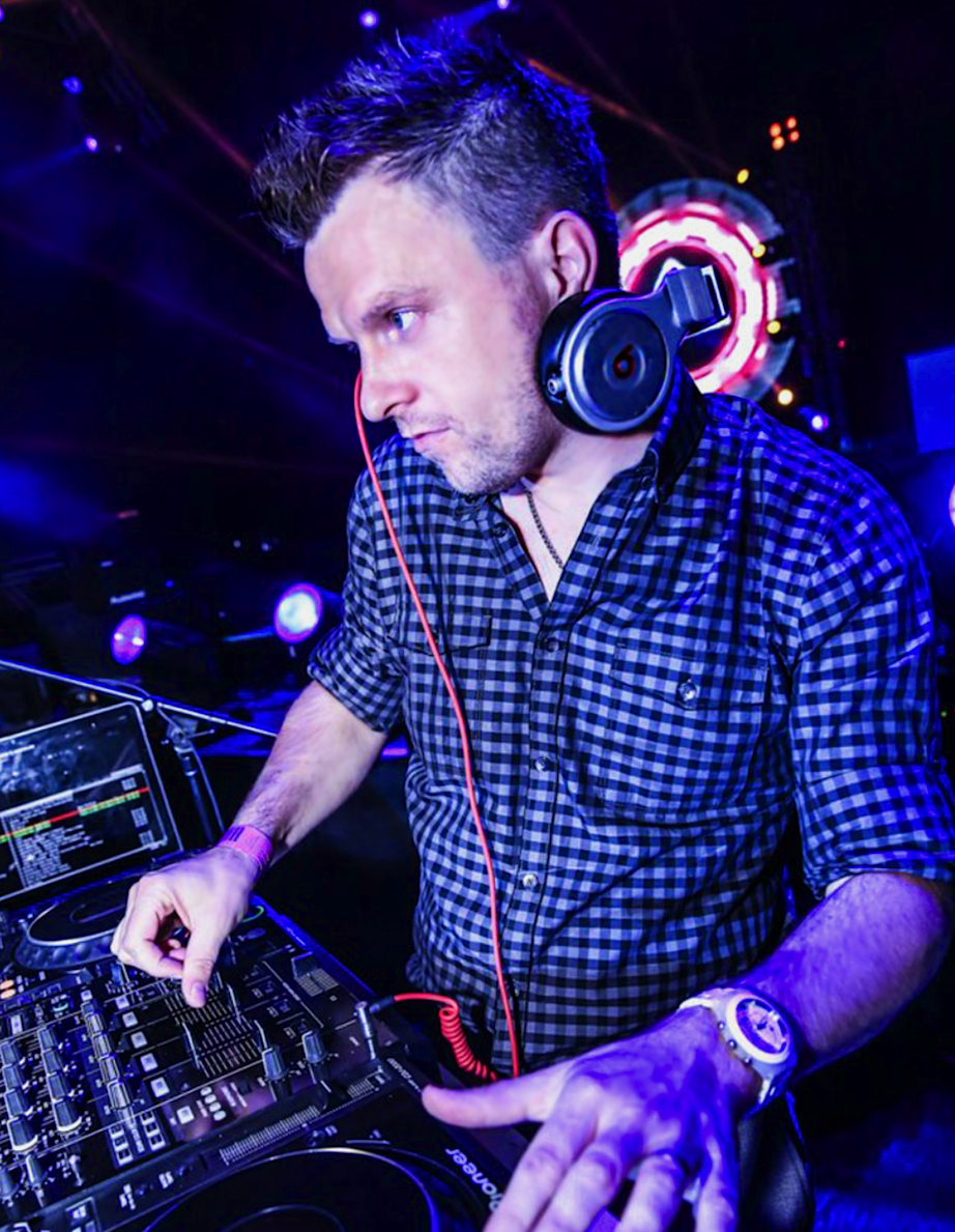 DJ Greg Stainer performing in 2012